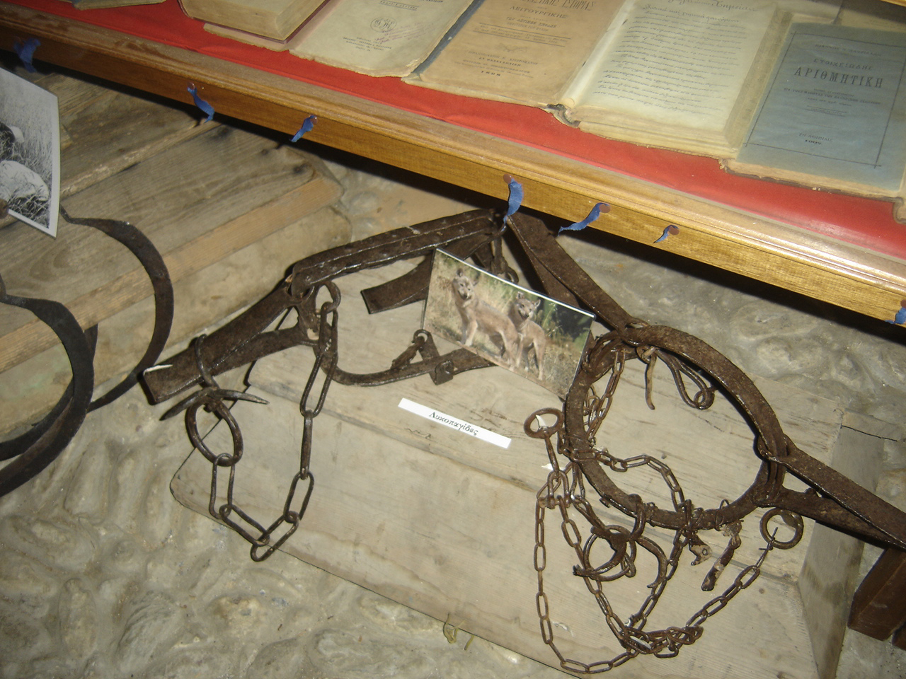 Wolf traps. From the Macedonian Museum of Kolindros.